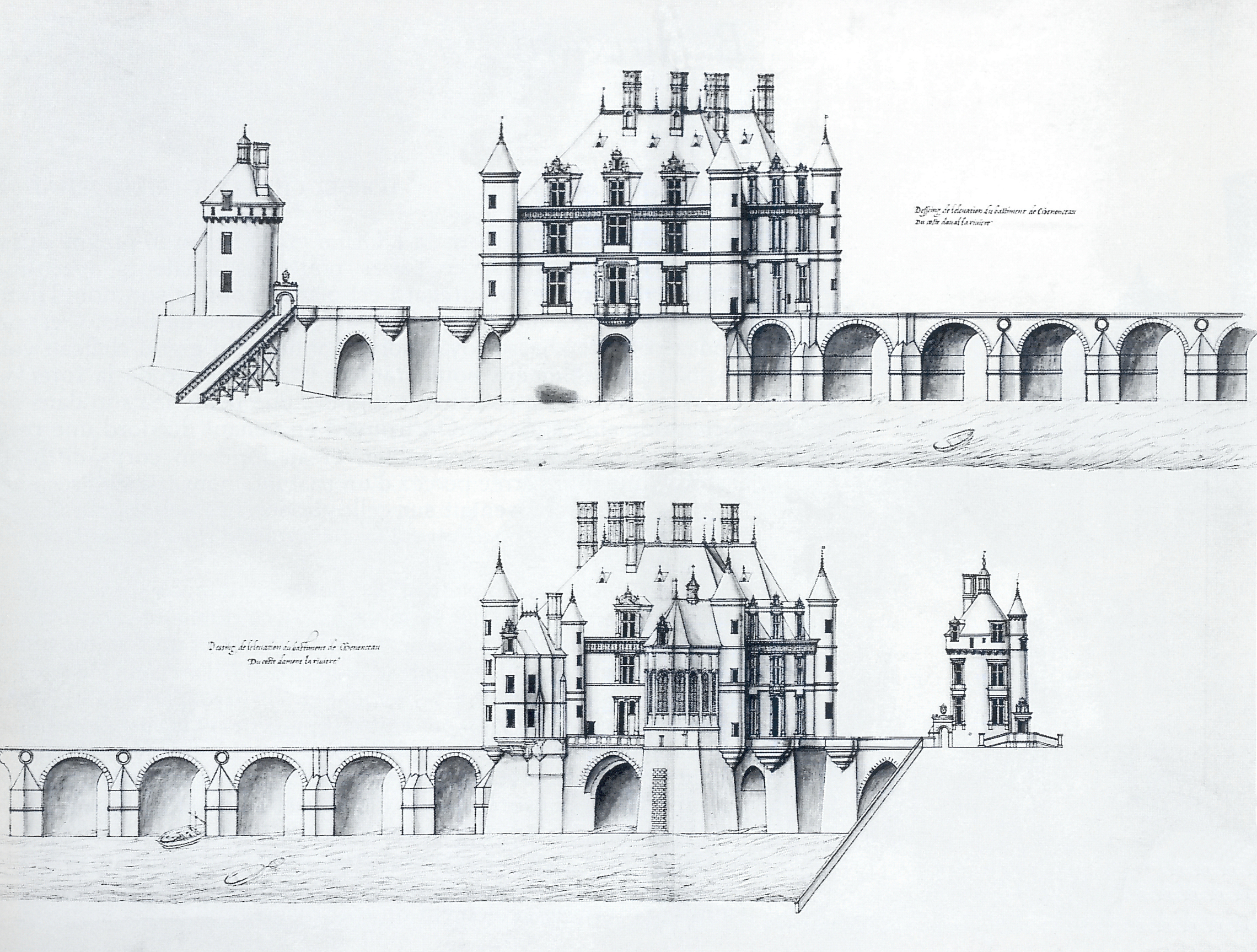 Château de Chenonceau, two studies: the upper part, a view of the château from the west with bridge extending to the right (south); the lower part, a view of the château from the east with the bridge extending to the left